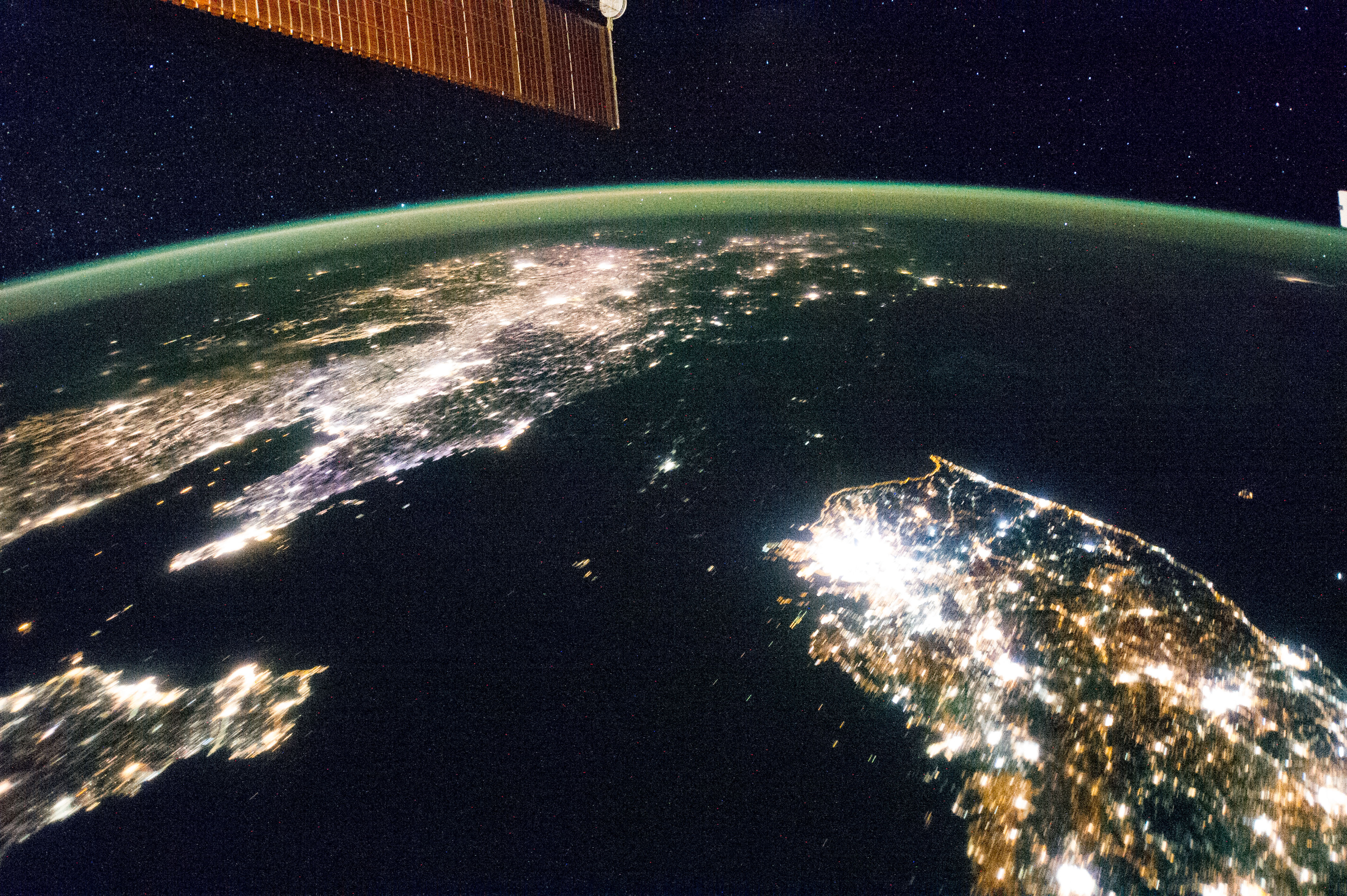 North & South Korea at night. Flying over East Asia, an Expedition 38 crew member on the International Space Station took this night image of the Korean Peninsula. Unlike daylight images, city lights at night illustrate dramatically the relative economic importance of cities, as gauged by relative size. In this north-looking view, it is immediately obvious that greater Seoul is a major city and that the port of Gunsan is minor by comparison. There are 25.6 million people in the Seoul metropolitan area-more than half of South Korea's citizens-while Gunsan's population is 280,000. North Korea is almost completely dark compared to neighboring South Korea and China. The darkened land appears as if it were a patch of water joining the Yellow Sea to the Sea of Japan. The capital city, Pyongyang, appears like a small island, despite a population of 3.26 million (as of 2008). The light emission from Pyongyang is equivalent to the smaller towns in South Korea. Coastlines are often very apparent in night imagery, as shown by South Korea's eastern shoreline. But the coast of North Korea is difficult to detect. These differences are illustrated in per capita power consumption in the two countries, with South Korea at 10,162 kilowatt hours and North Korea at 739 kilowatt hours.